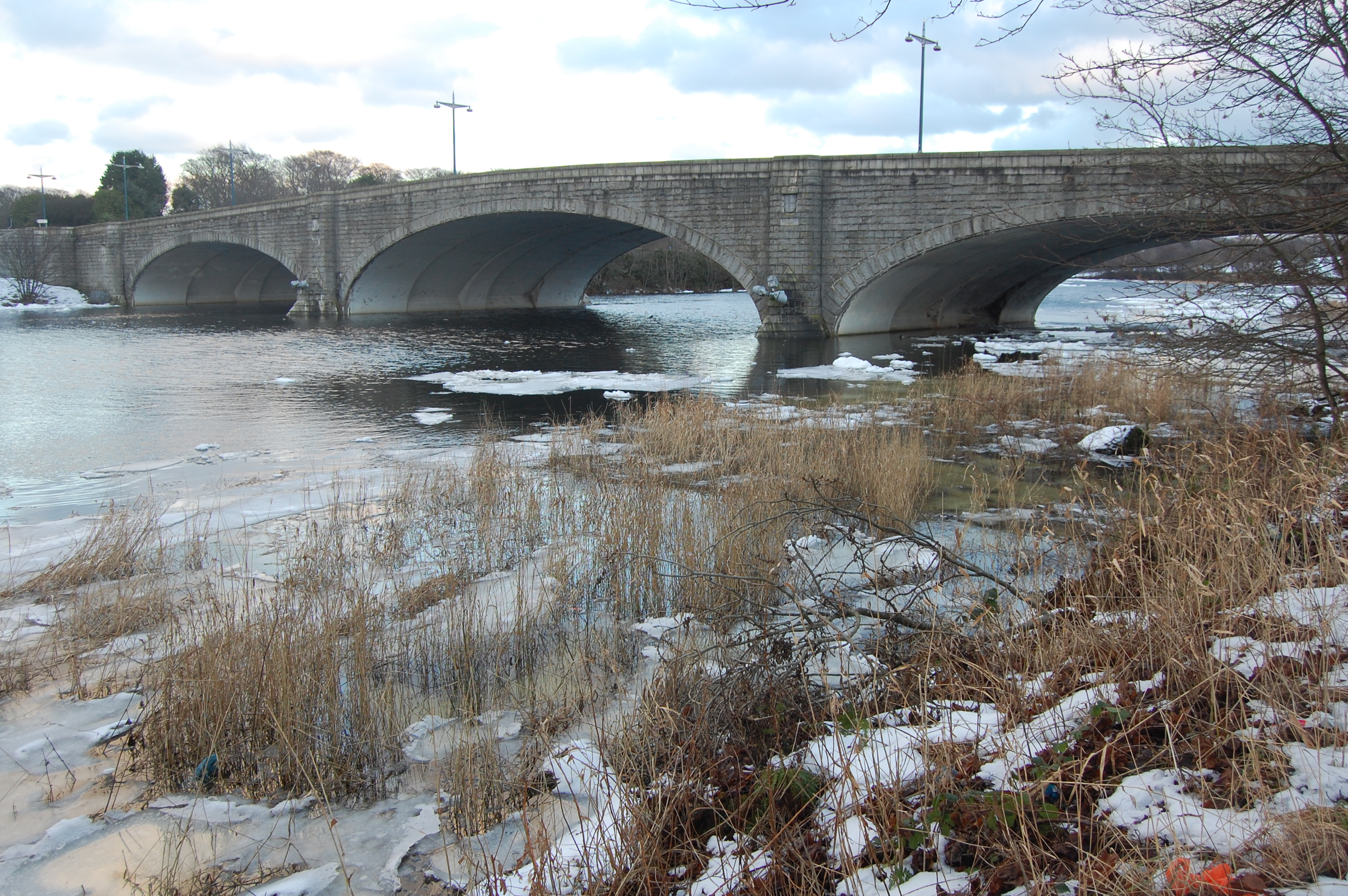 King George VI Bridge in Aberdeen - view from West (taken upstream of the bridge)